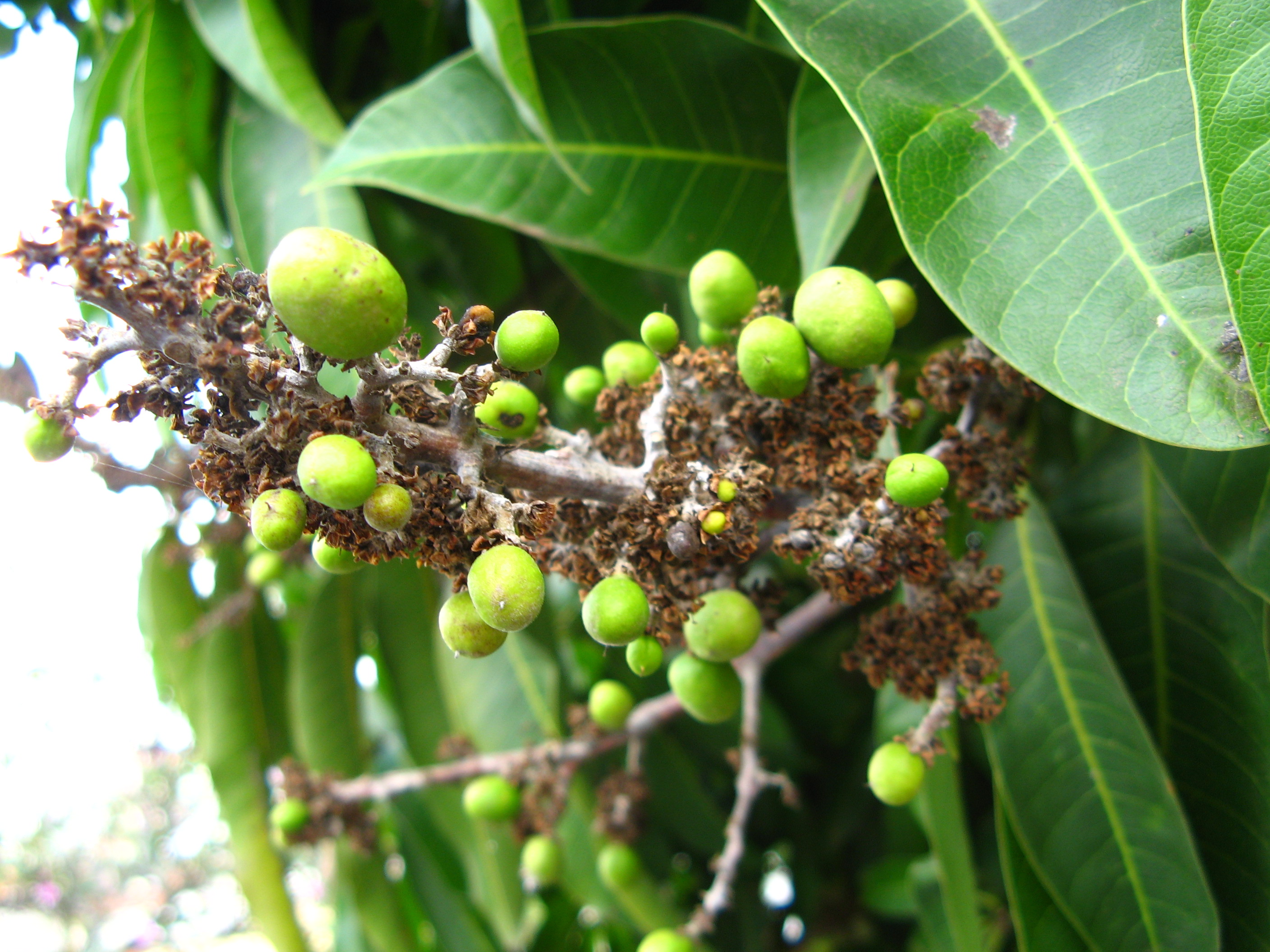 mango fecinded flower in sao paulo